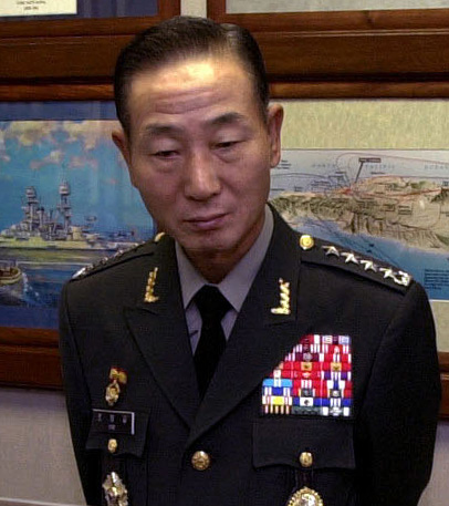 General Cho Yung-kil, Chairman of the Joint Chiefs of STAFF, South Korea